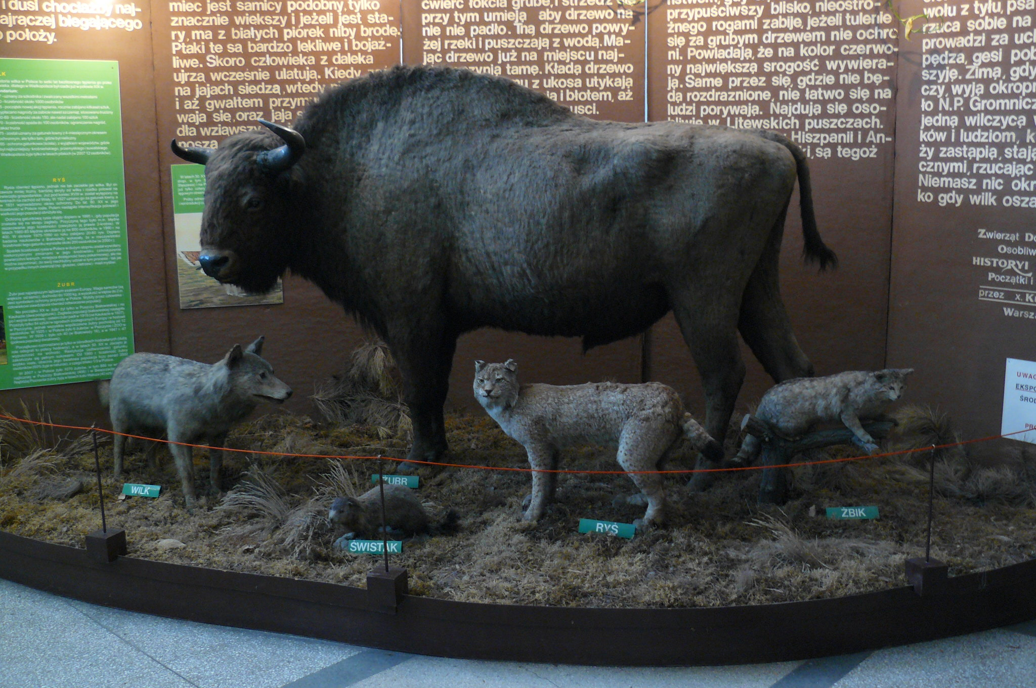 Museum of Nature, Poznan.